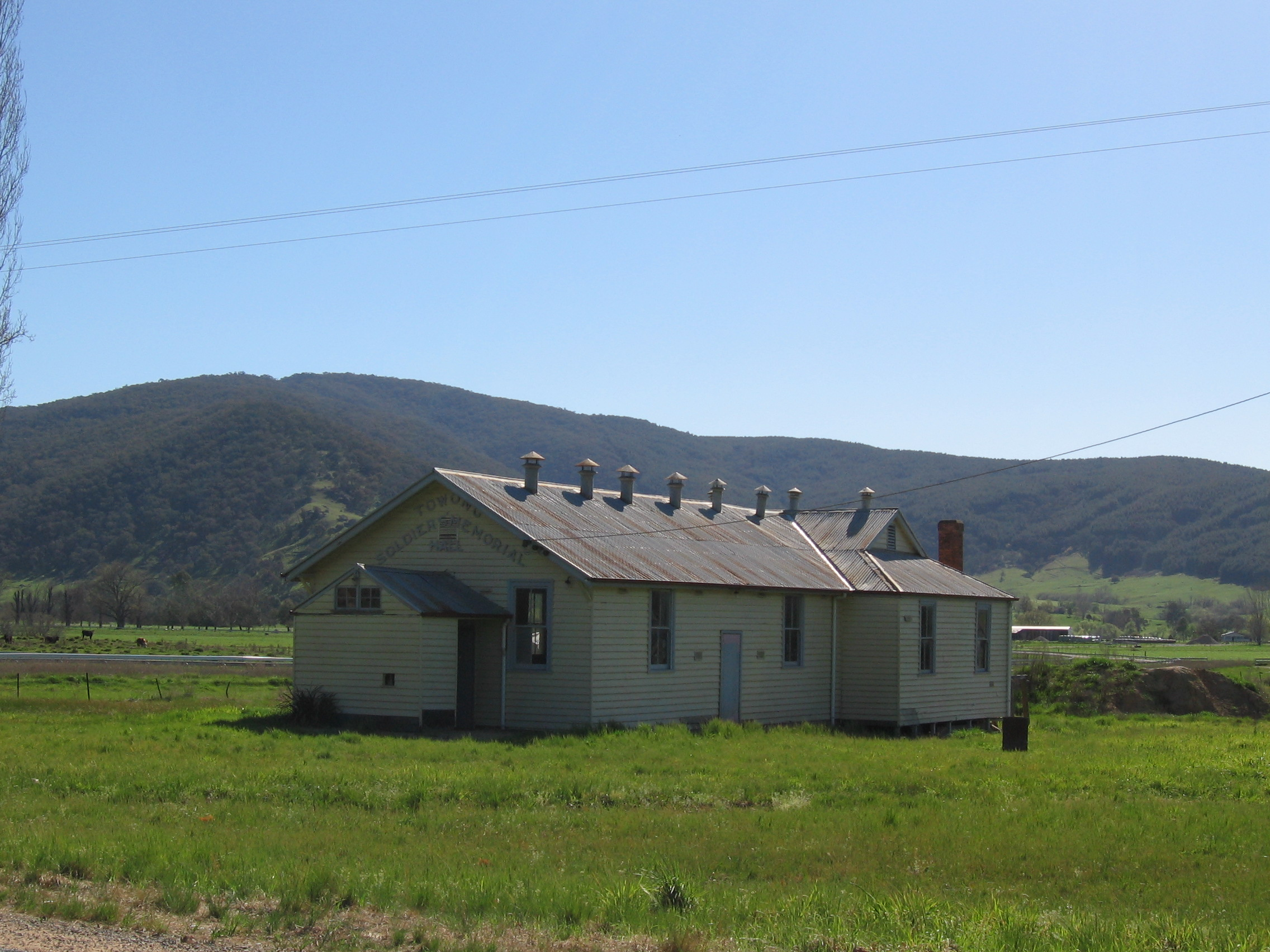 Soldiers Memorial Hall at Towong, Victoria